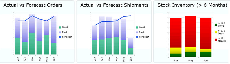 SharePoint dashboards aggregate data from a variety of sources for and graphically display it in a central location.